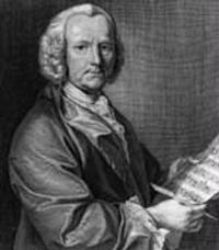 Willem_de_Fesch - composer